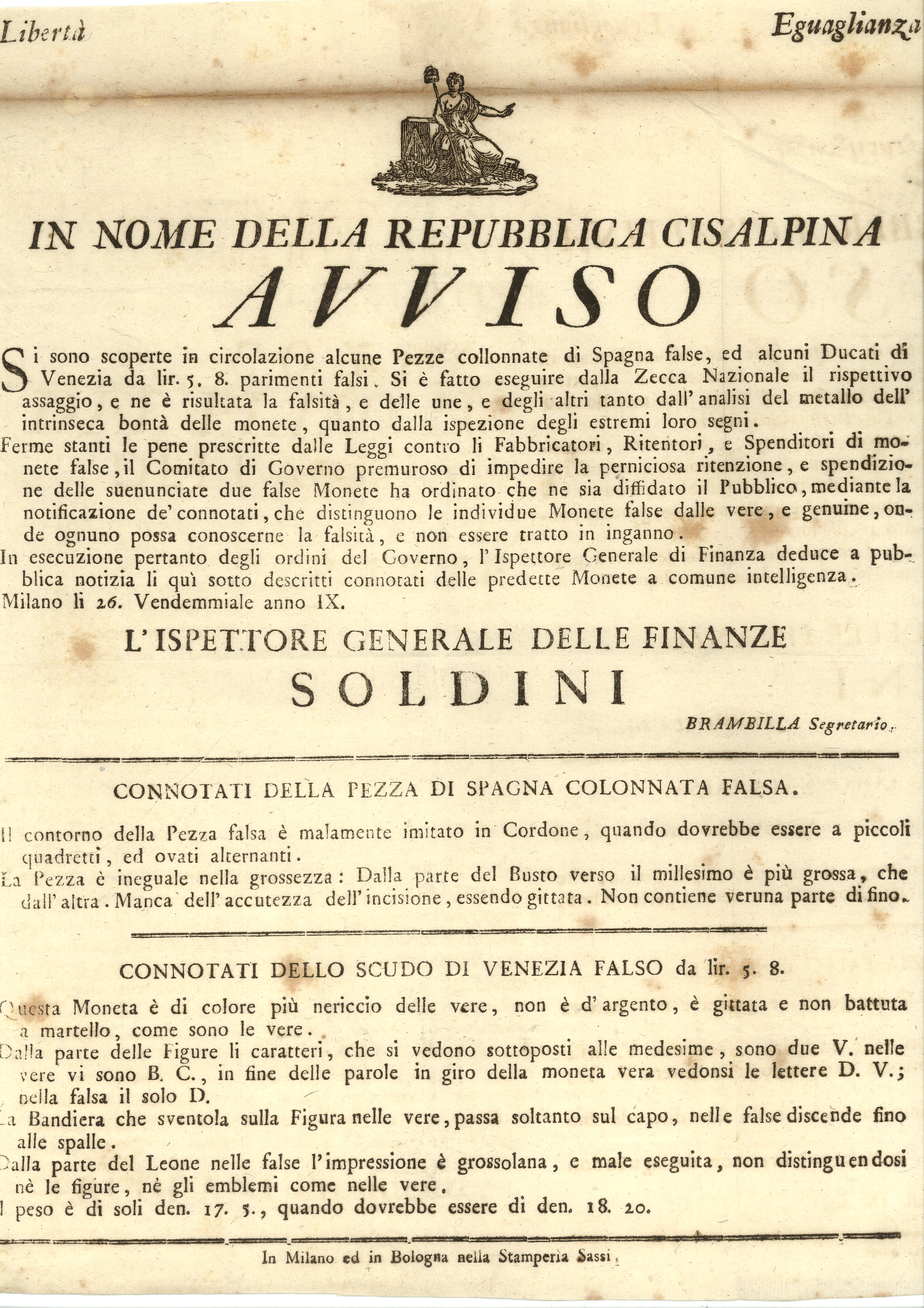 Repubblica Cisalpina: public notice of circulating counterfeit coins.